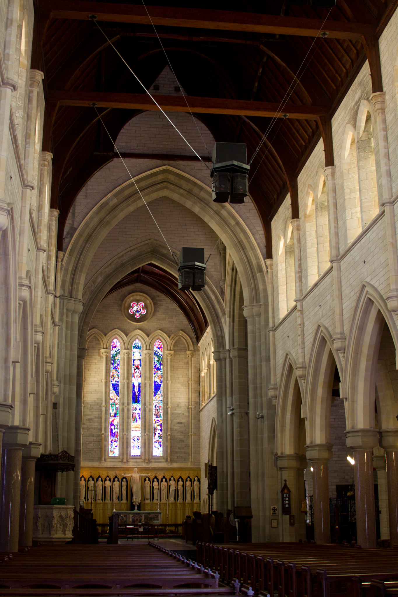 Interior of Cathedral of the Most Holy Trinity, Hamilton, Bermuda.